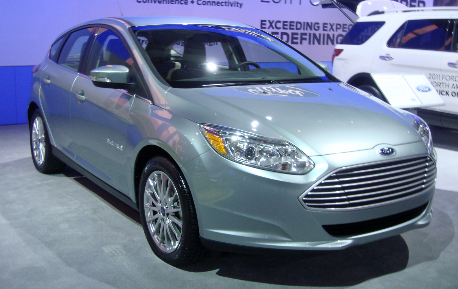 2012 Ford Focus Electric exhibited at the 2011 Washington Auto Show